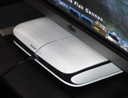 A prototype of the Phantom game console shown to visitors at E3 2004 in Los Angeles.